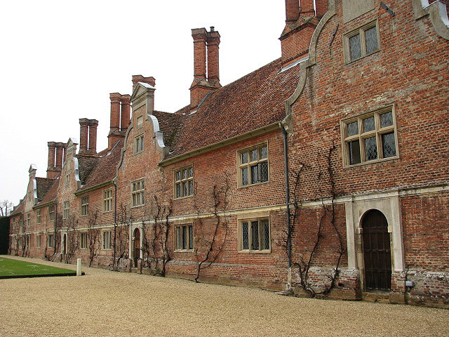 Blickling Hall - west wing Originally, Blickling Hall was built as a manor house. In the 11th century the house was owned by Harold Godwinson, who later became the King of England. William I passed the property on to his chaplain and by 1091 it had become a country palace of the bishops. During the late 14th century it was owned by Sir Nicholas Dagworth, who built a rectangular house surrounded by a moat. At the end of the 15th century, Blickling Hall was owned by the Boleyn family and, according to tradition, Anne Boleyn was born here. Sir Henry Hobart purchased the estate in 1616. His descendants lived at Blickling Hall until 1940. The estate is now in the care of the National Trust.